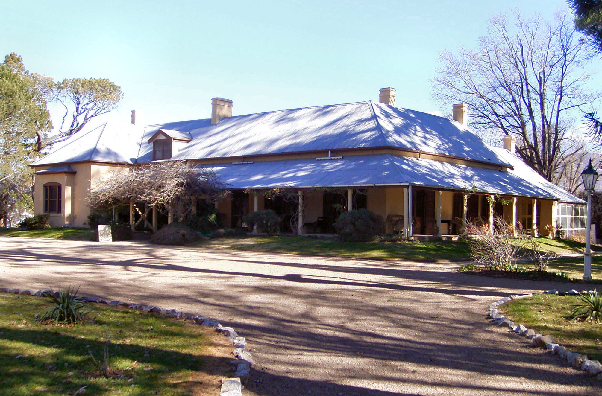 Lanyon Homestead, Tharwa ACT, Australia.